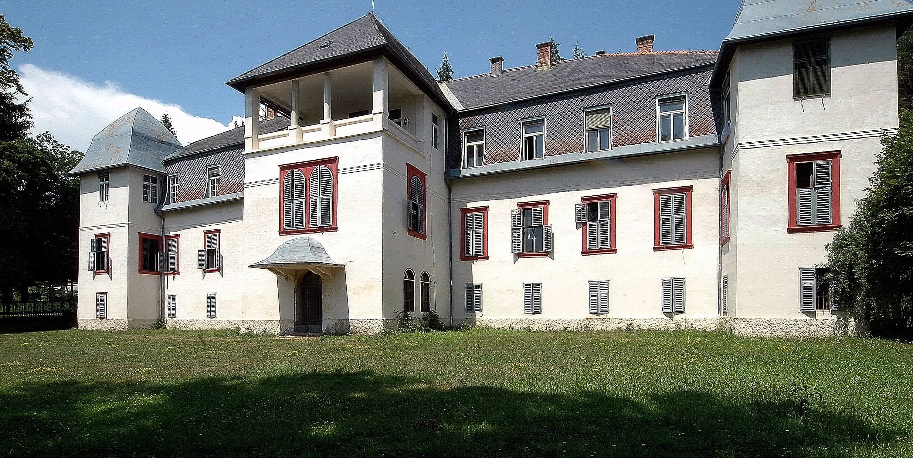 Castle “Emmersdorf” in the 14th district “Wölfnitz” of the Carinthian capital Klagenfurt, Carinthia, Austria